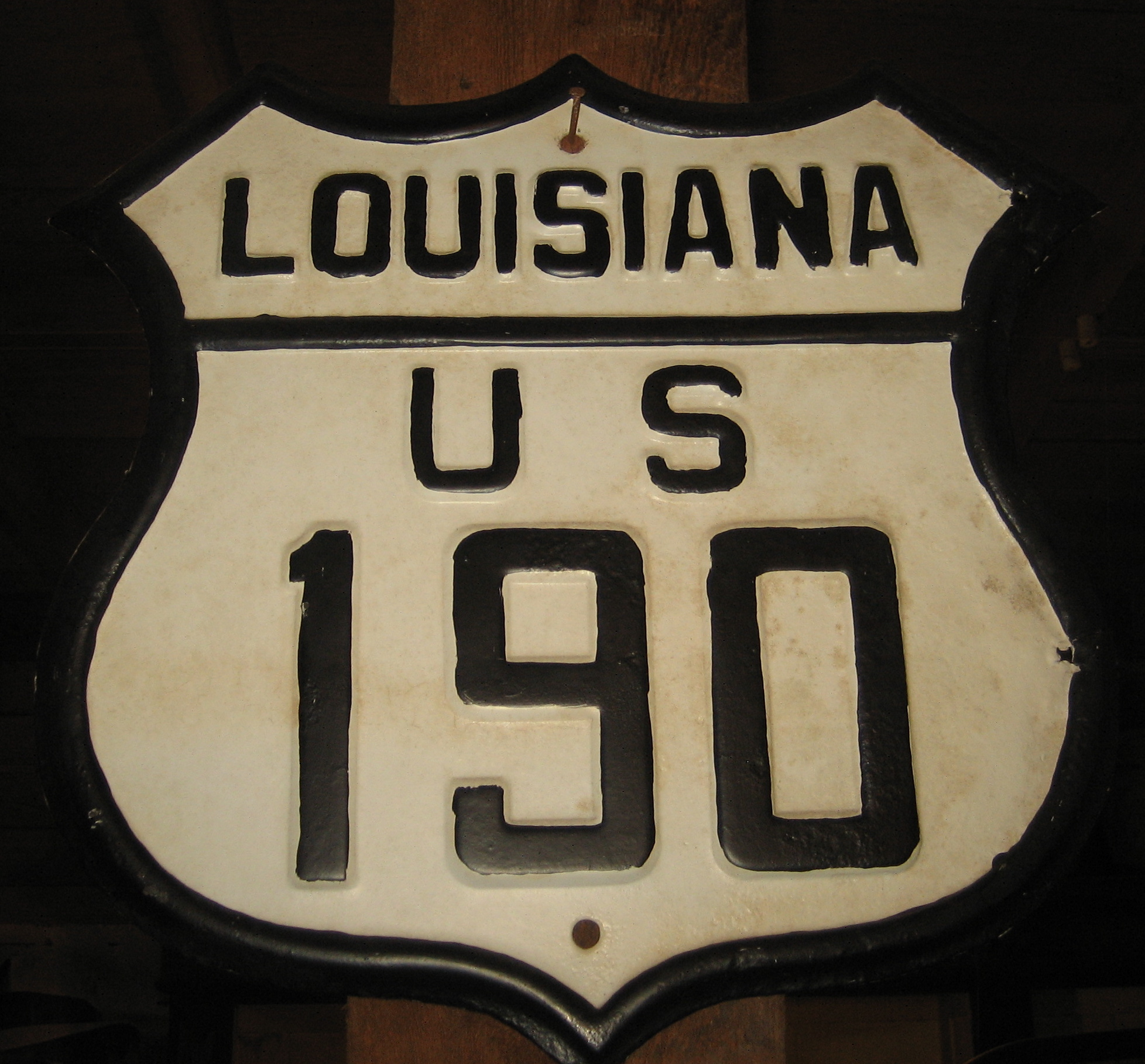 Old sign for U.S. Route 190 in Louisiana, now in the "museum room" of H.J. Smith's General Store, Covington, Louisiana.